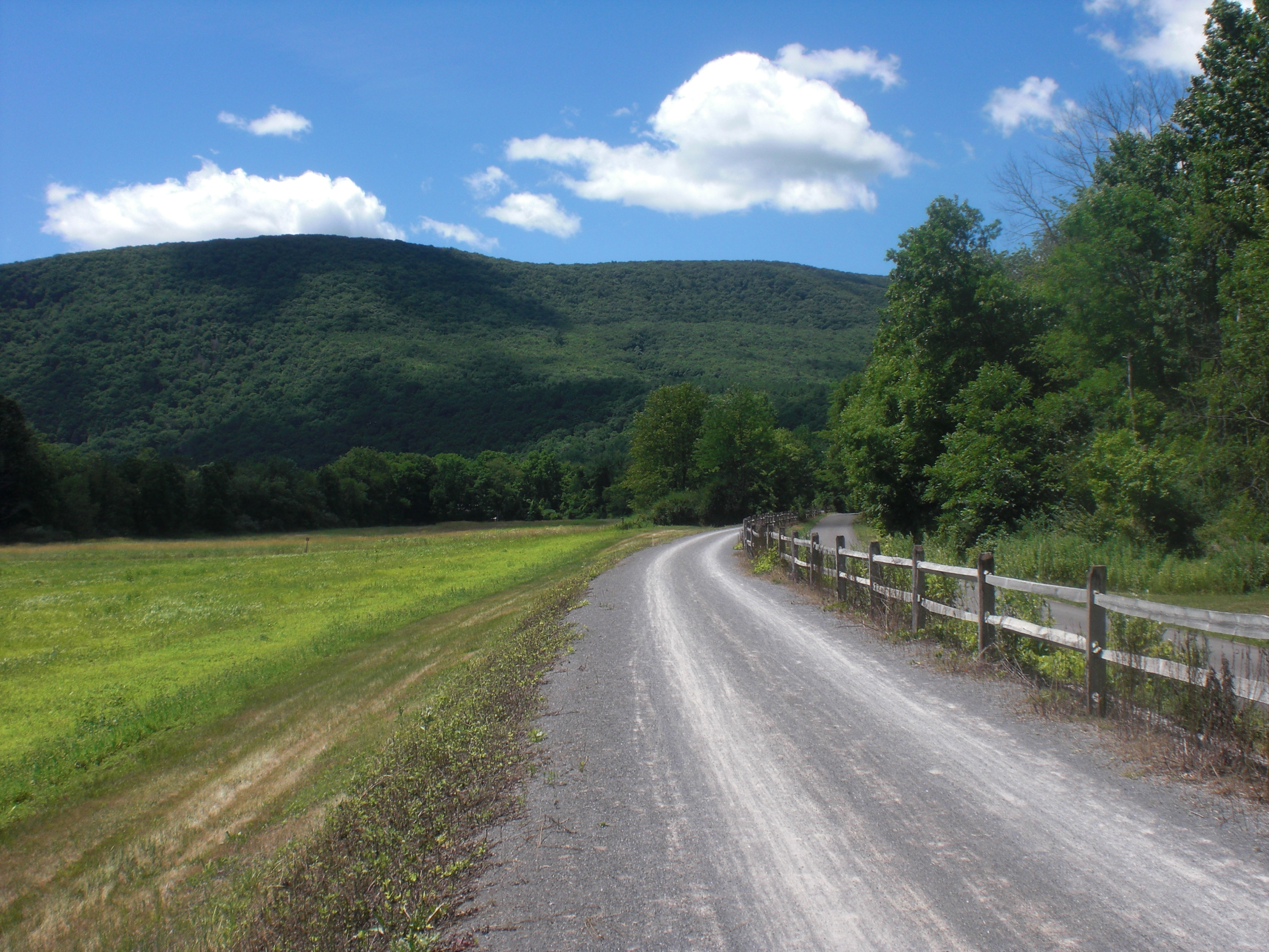 Pine Creek Rail Trail heading south through a field in Watson Township, Lycoming County, Pennsylvania, with mountains in the background.